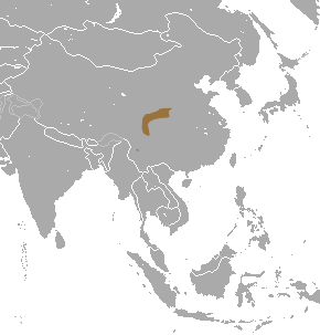 Chinese Shrew Mole (Uropsilus soricipes) range